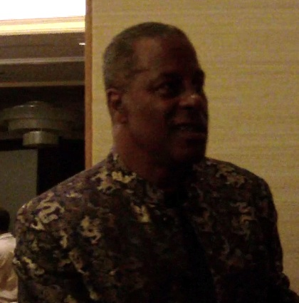 John Smith at the Jesse Owens Award banquet